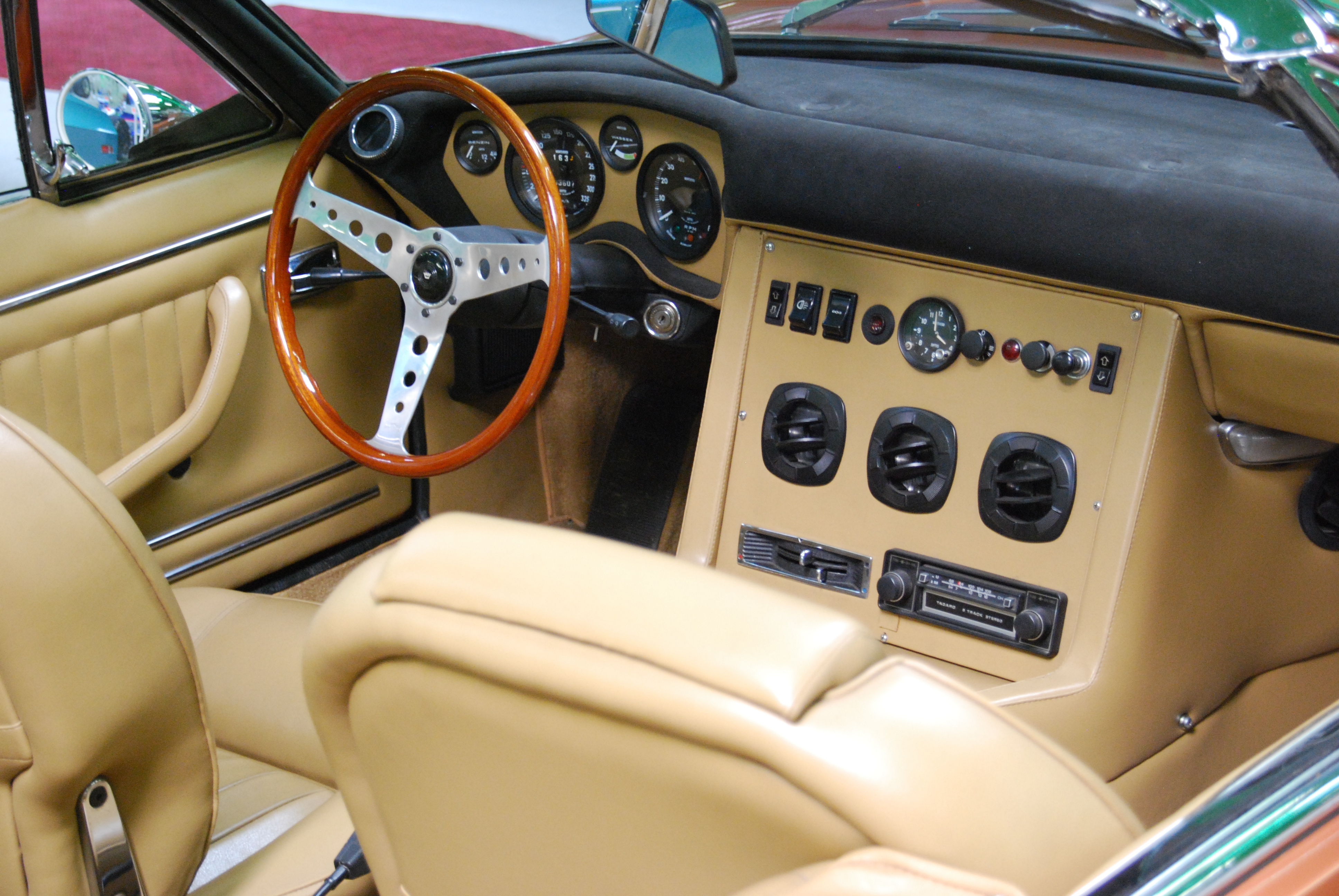 Monteverdi Palm Beach, one-off, shown at the Monteverdi Auto Museum in Basel, Switzerland.